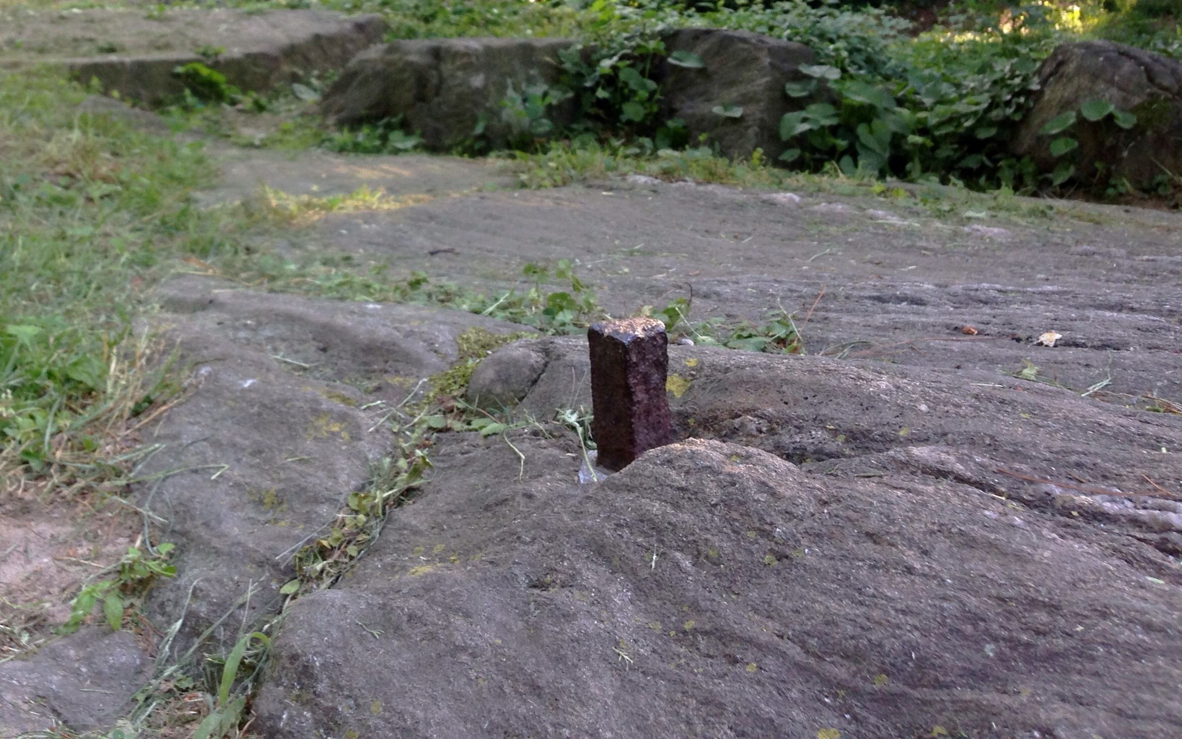 One of a few remaining of John Randel's survey bolts to mark New York City street grid as part of the plan in the 1810s. This bolt was planned for 6th Avenue and 65th Street. Reference: Central Park Bolt from The 25 Best Nerd Road Trips by Popular Science.